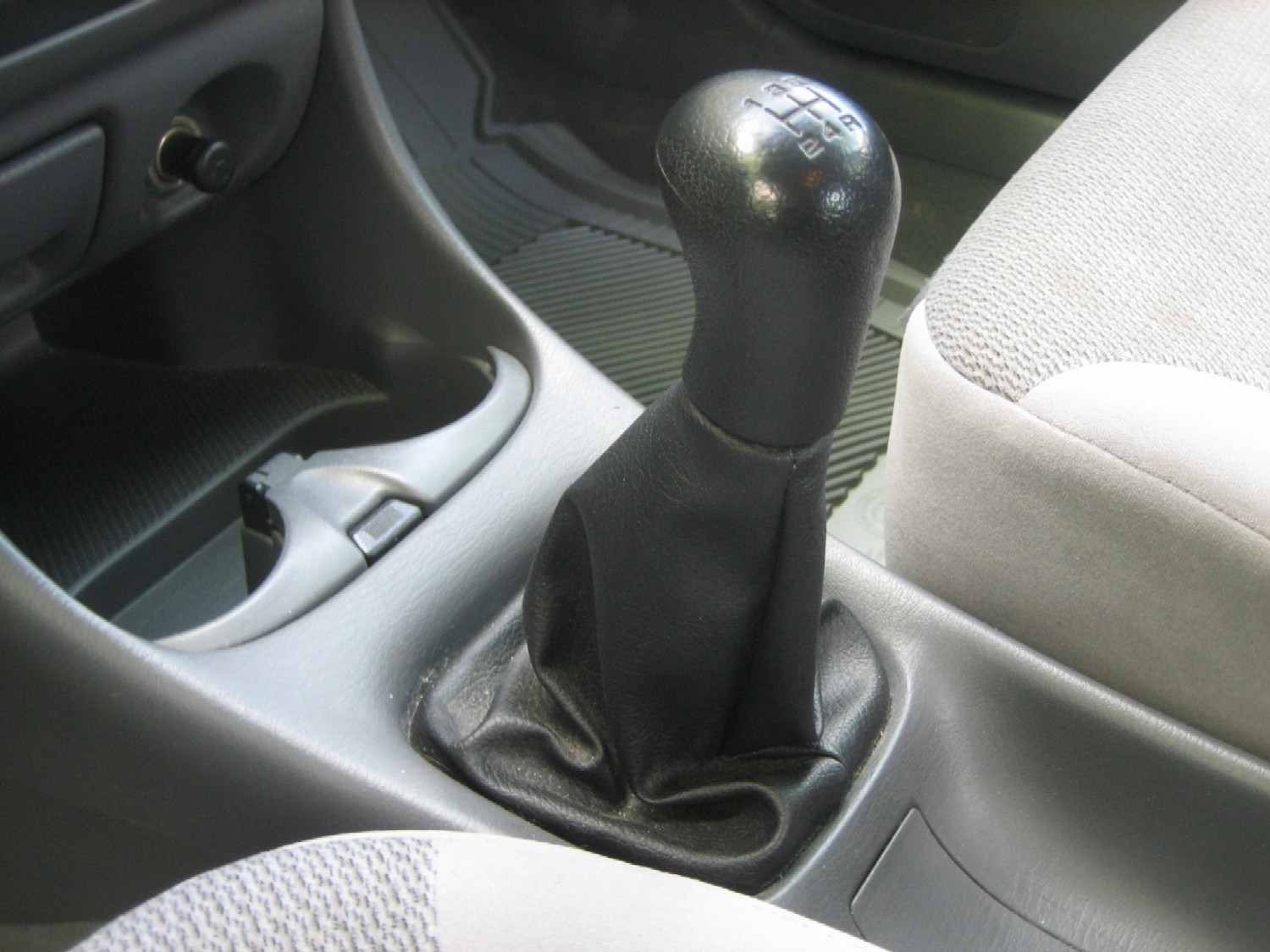 Gear shift stick of my Mazda Protege SE 1999.